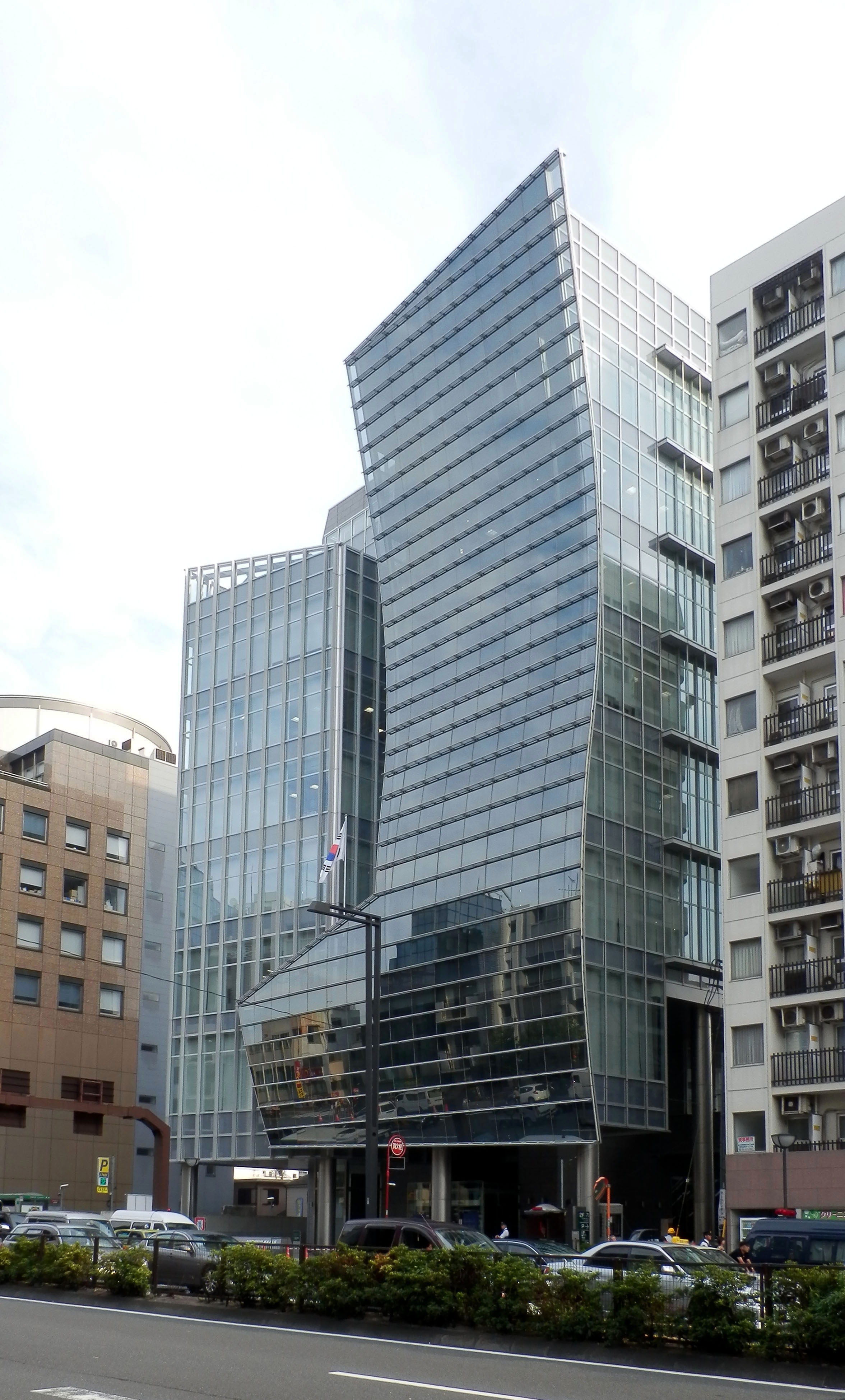 Embassy of Republic of Korea in Tokyo, Japan